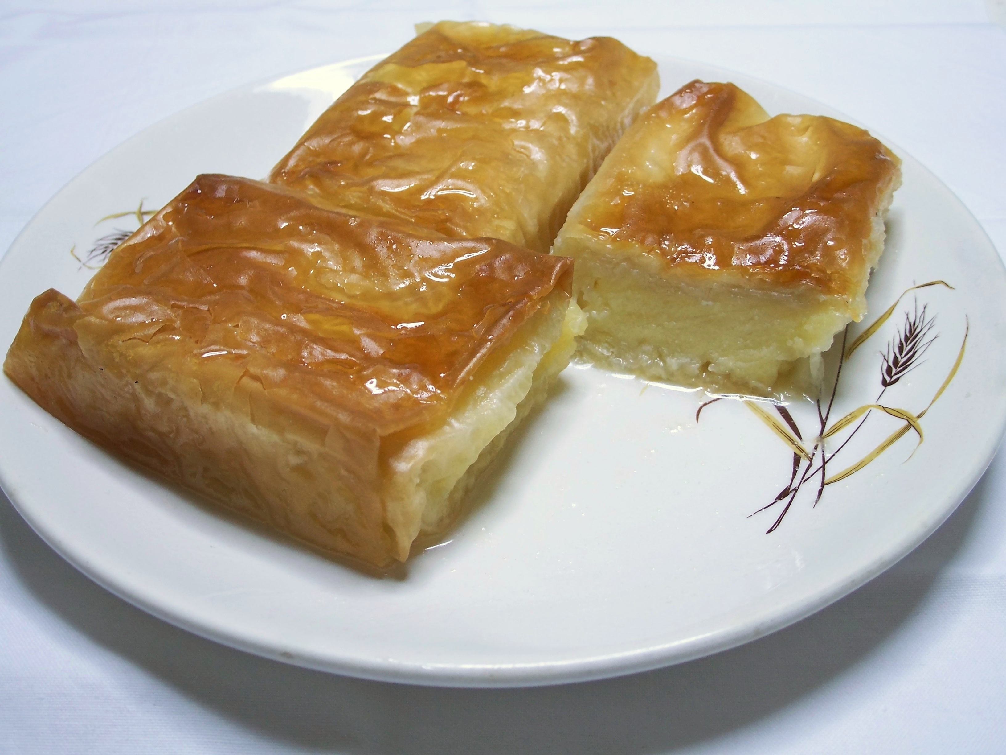 Three pieces of Galaktoboureko, a popular greek desert. Τρία κομμάτια γαλακτομπούρεκο